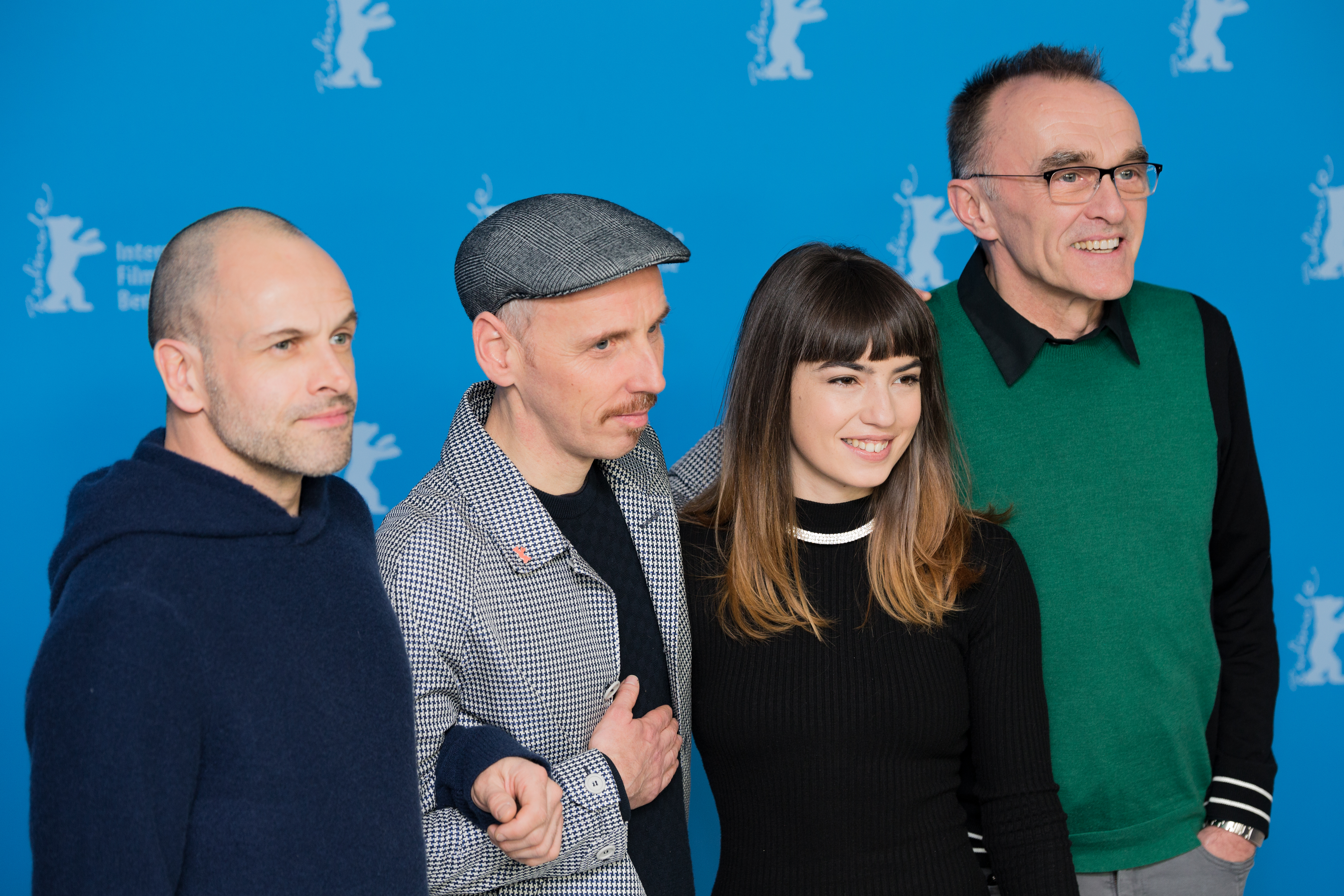 The film team of T2 Trainspotting at the Berlinale 2017